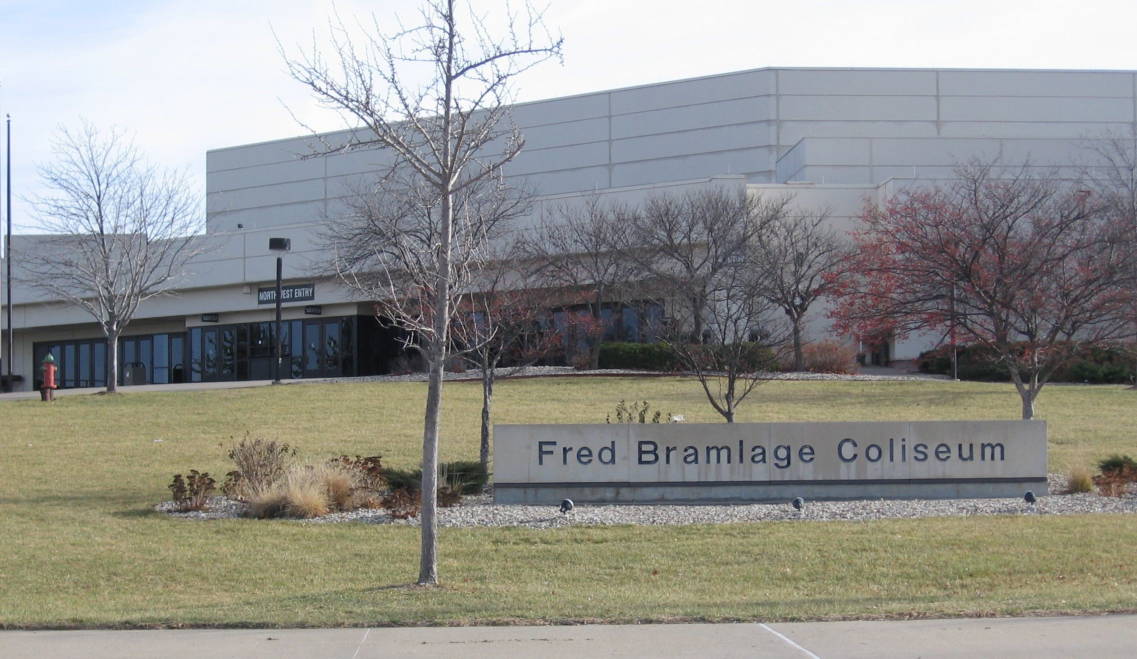 My photo from December 2006